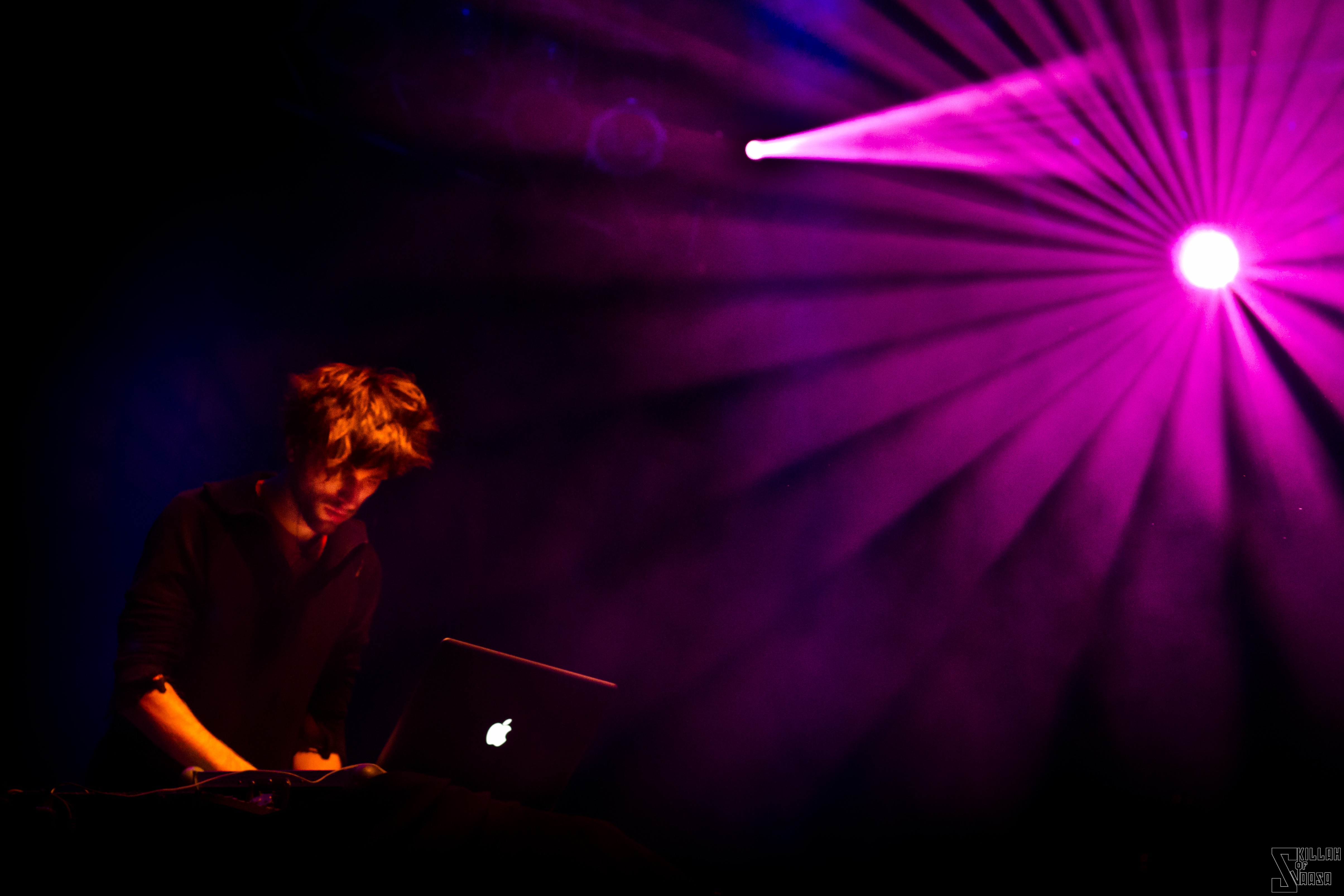 Norwegian electronic musician Hans-Peter Lindstrøm performing live in Tampere, Finnland in 2011.